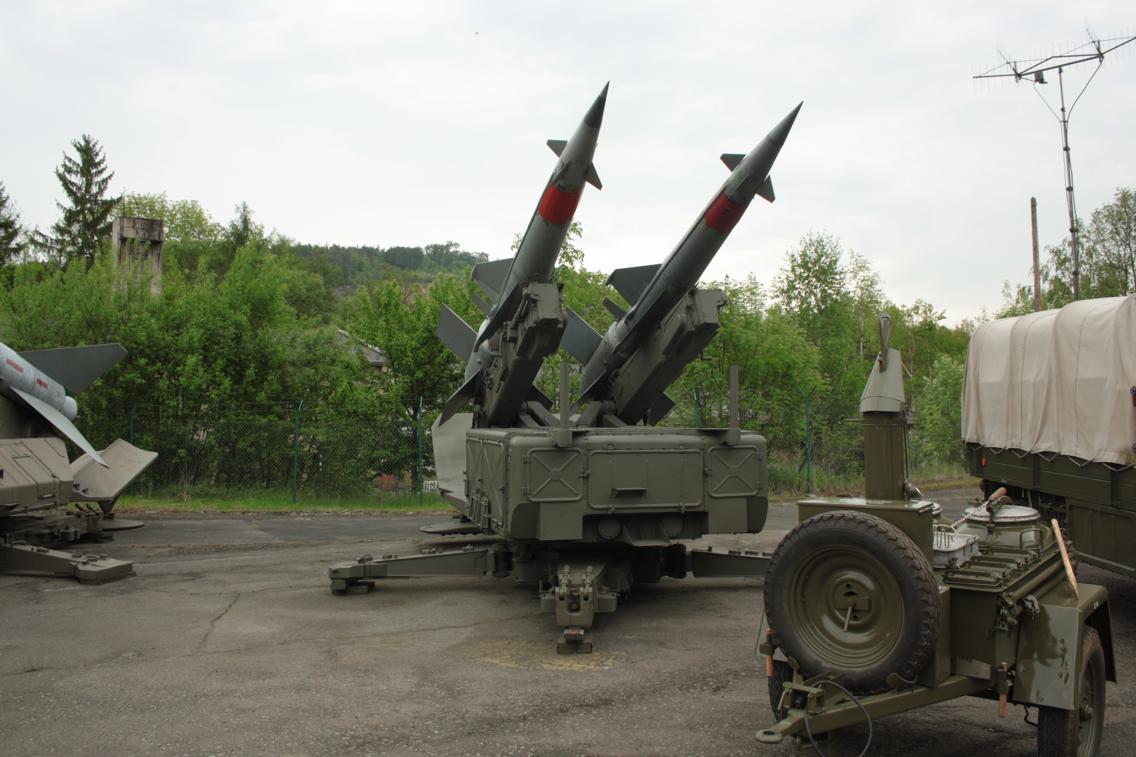 S-125 Něva anti-aircraft complet (SA-3 Goa) in Lešany military museum, Central Bohemian Region, CZ This photograph was taken with a DSLR from WMCZ's Camera grant. This picture was taken and/or got within the scope of the 'Acquiring scientific and specialized pictures' grant.